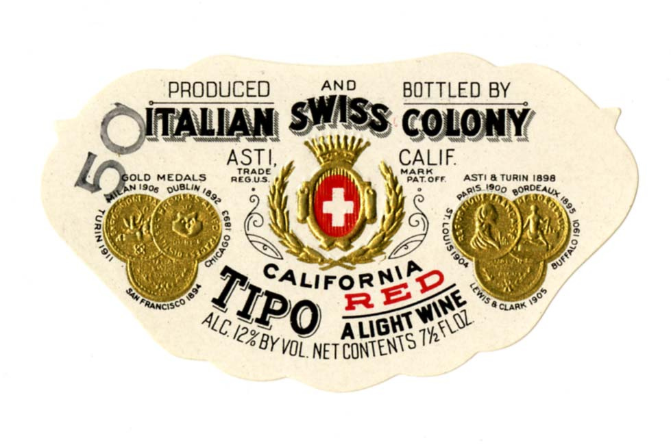 Repository: California Historical Society Collection: California wine label and ephemera collection Date: undated Call Number: Kemble Spec Col 07 Digital Object ID: Kemble Spec Col 07_013.jpg Preferred Citation: Wine label, Italian Swiss Colony, Tipo California Red, California wine label and ephemera collection, Kemble Spec Col 07, courtesy, California Historical Society, Kemble Spec Col 07_013.jpg.